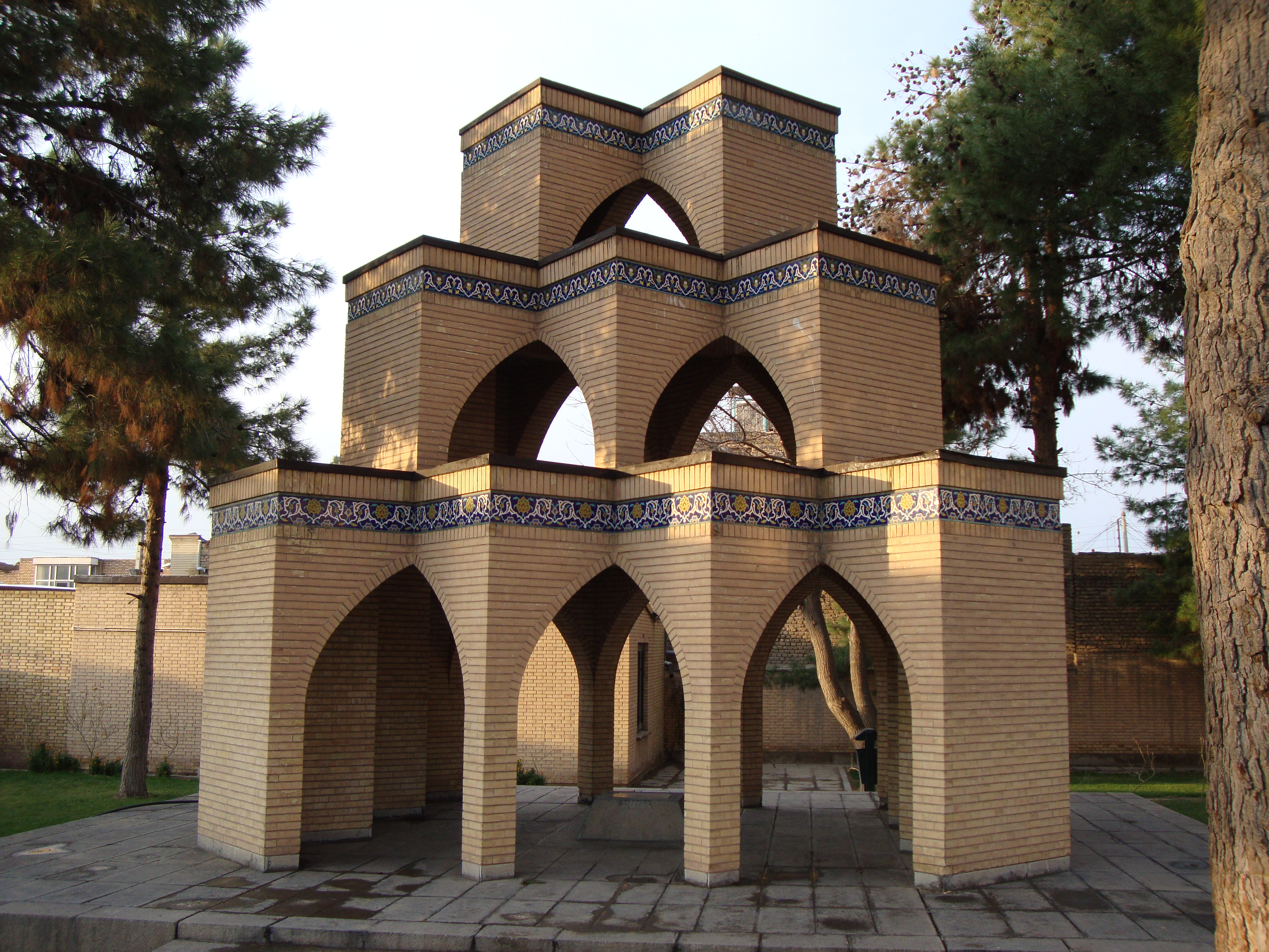 Name of Historical Monument: The memorial construction of Molla Hossein Kashefi in Sabzavar, Iran Registration No. of National vestiges: 3516 Antiquity: Contemporary Molla Kamal Al-din Hossein Kashefi (died in 910 LH) is among famous scientists late of Timurid period. He spent the main portion of his life in Herat City and died there. The present monument is built in memory of his person by the national monuments society with engineer Ahmad Farahbakhsh's plan in 1352 AH. His monuments is constructed in three floors and compounded of porches, four-pourches, and sternum arches.